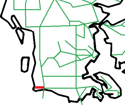 Map of railways in Southern Jutland in Denmark with the state railway Tønder-Højer banen in red.